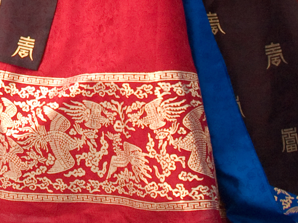 Geumbak on hanbok. The picture is cropped for the relevant item.